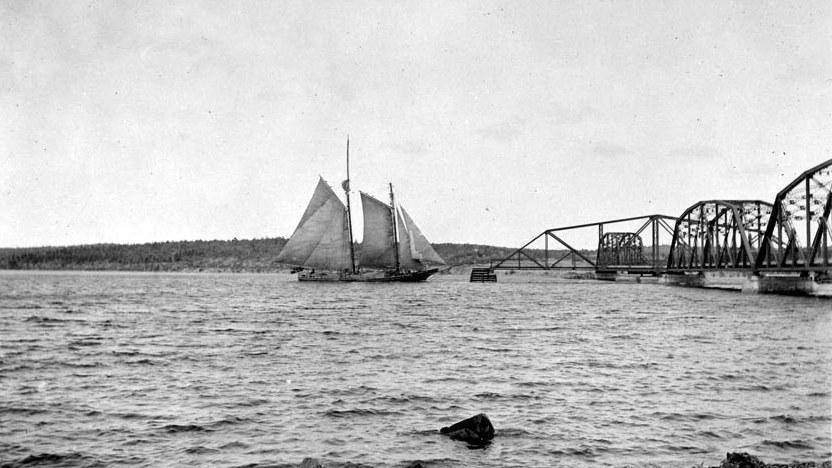 Lennox Passage is a navigable waterway between Cape Breton Island and Isle Madame in Nova Scotia, Canada. Small craft use the relatively protected Passage (also correctly referred to as a strait) traveling to and from St. Peters Canal at the village of St. Peter's and the Strait of Canso to avoid sailing around the east coast of Cape Breton in the open Atlantic Ocean. The Passage is approximately 10 nautical miles (16 km) in length from MacDonalds Shoal (near Janvrin Island) to Ouetique Island near D'Escousse with depths varying from 3 to 20 metres. Bridging the passage: Initially crossed by two ferries, (one from the present location of the bridge and one from Grandique Point to Grandique Ferry), construction of a swing bridge began in 1916 and was completed in 1919, connecting Isle Madame to Cape Breton. This bridge was horse-operated.